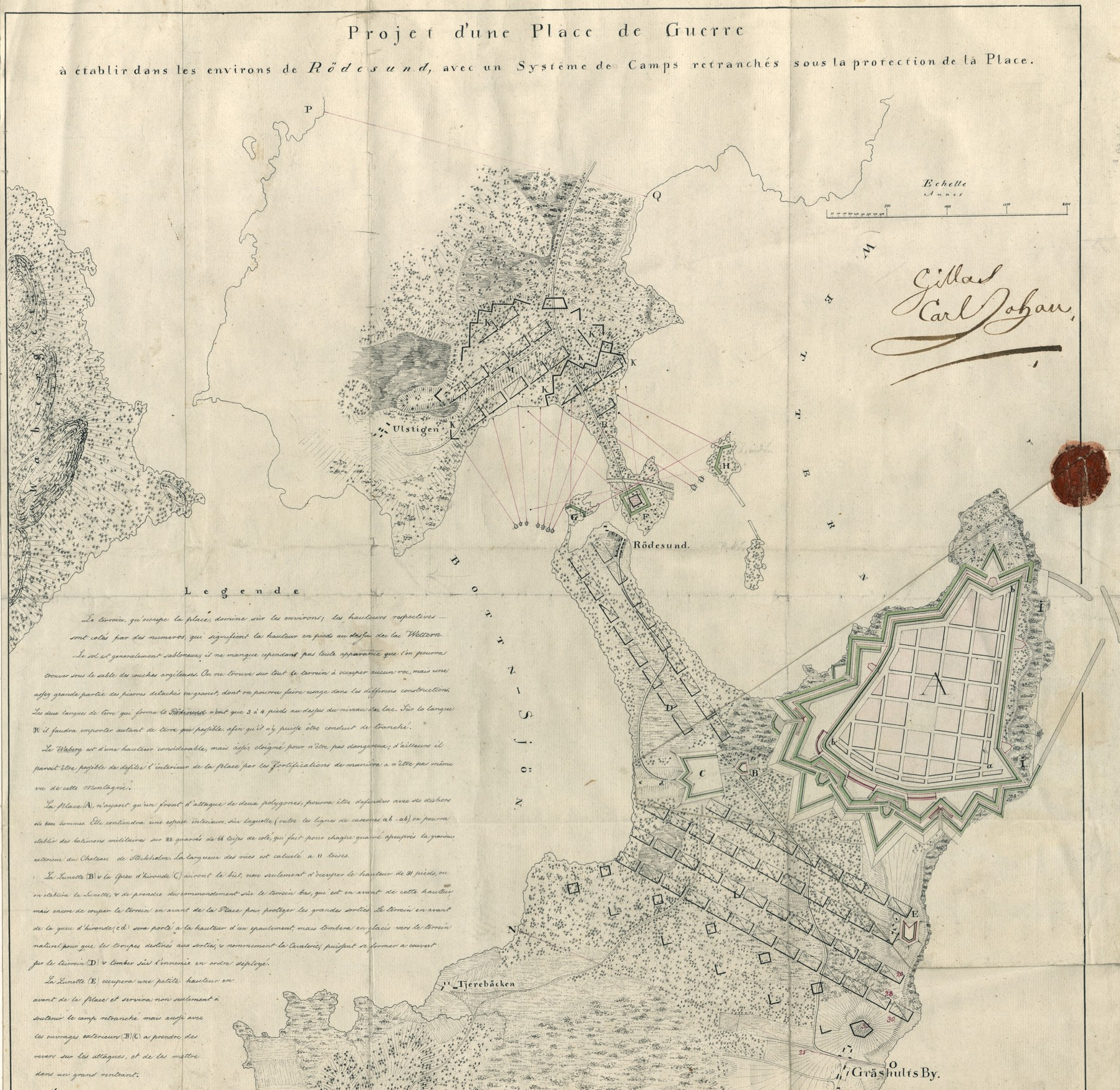 Project map of the planned Swedish fortress Karlsborg. Approved by king Charles XIV John of Sweden 1819.